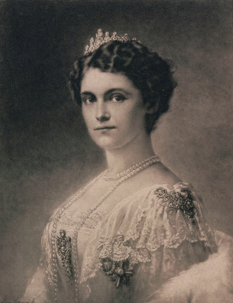 Empress Zita of Austria in her younger years.